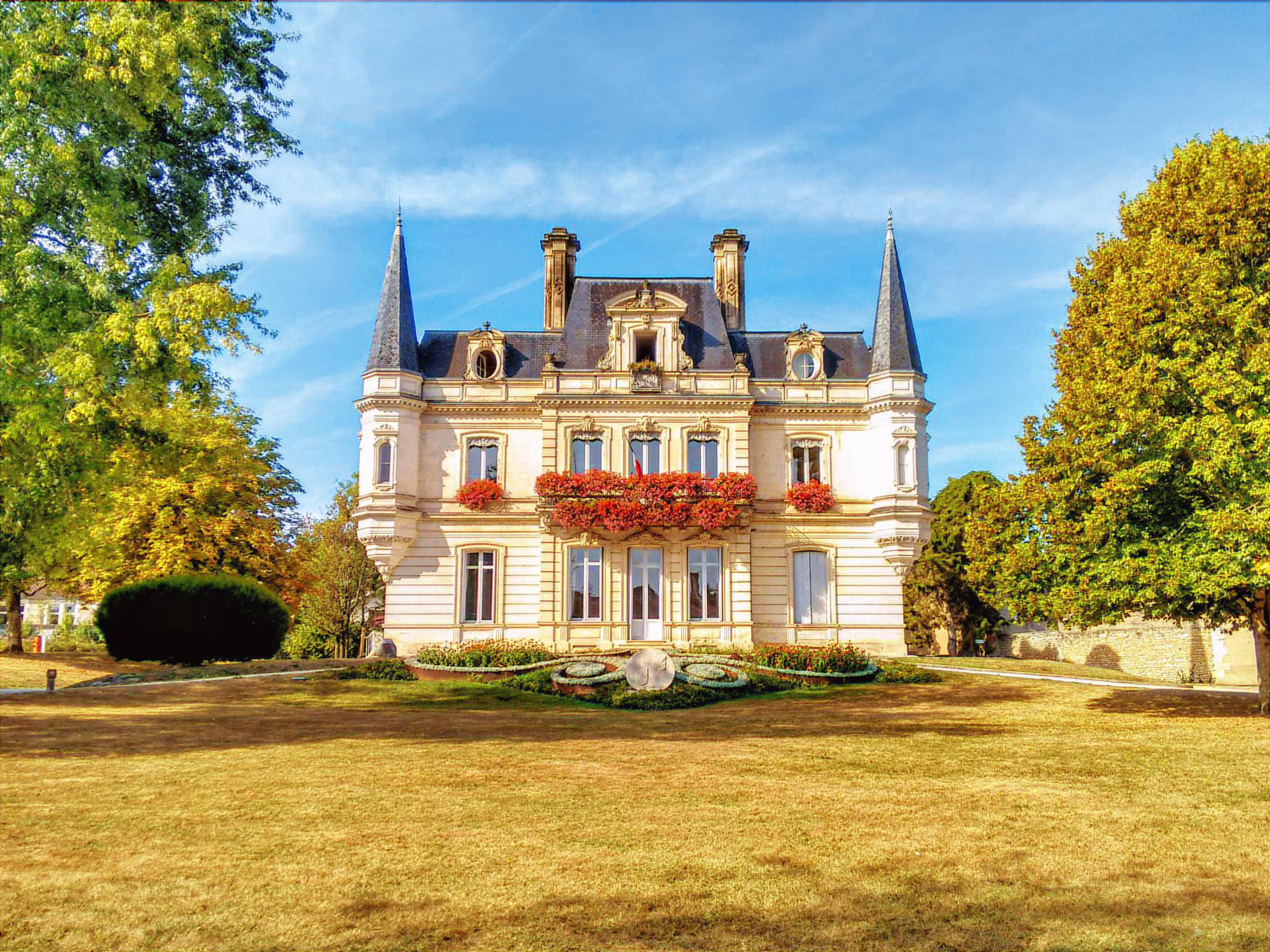 Ribérac Mairie - Septembre 2016